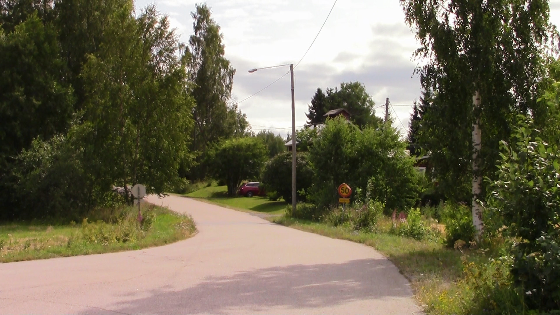 Myllärintie road as seen from Its beginning point at Myllärinmäki suburb in Nakkila, Finland.